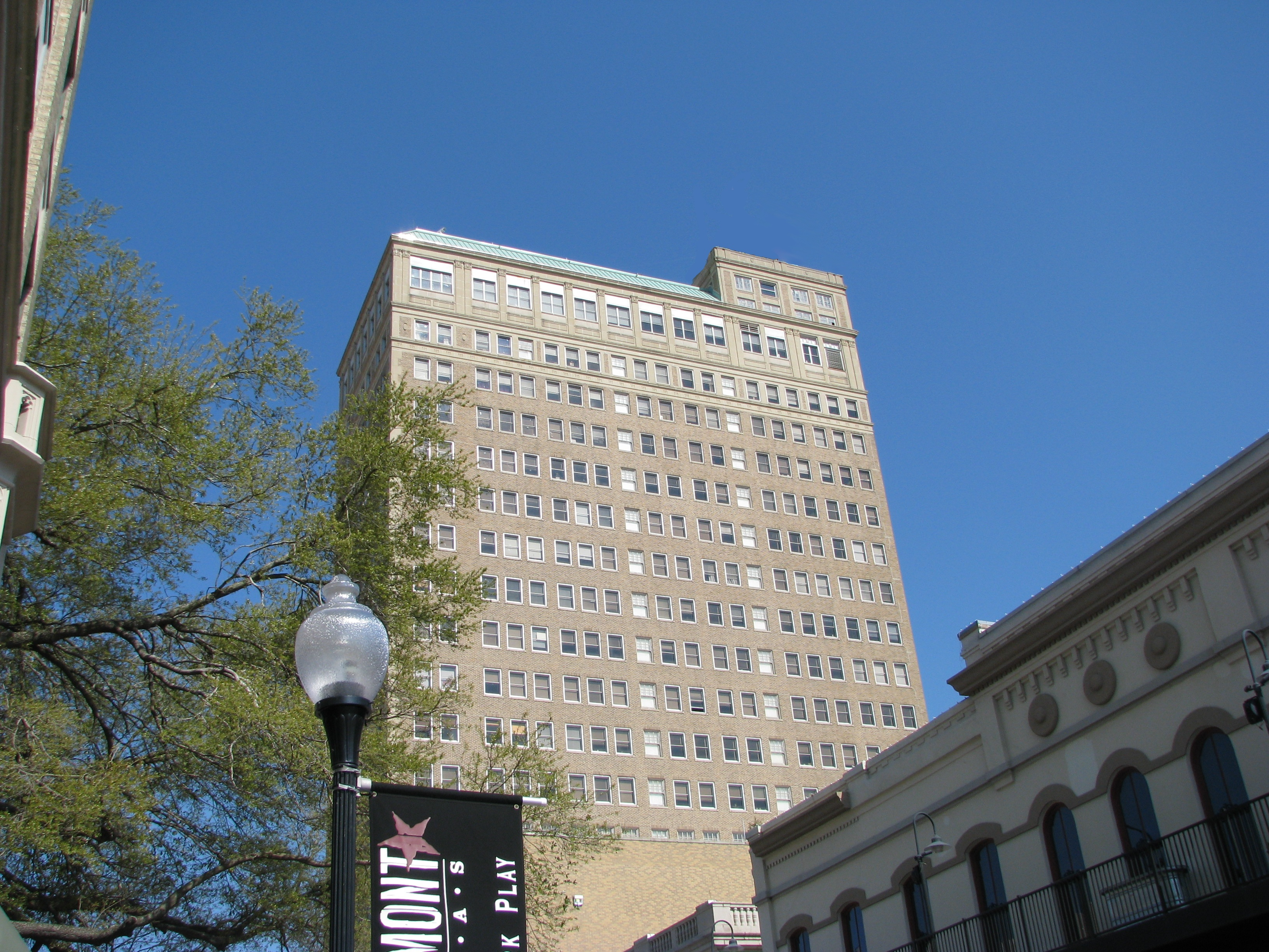 Edson Hotel, Beaumont, Texas